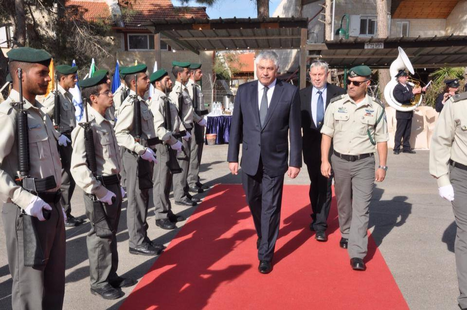 Vladimir Kolokoltsev visiting Israel Border Police, January 2014.